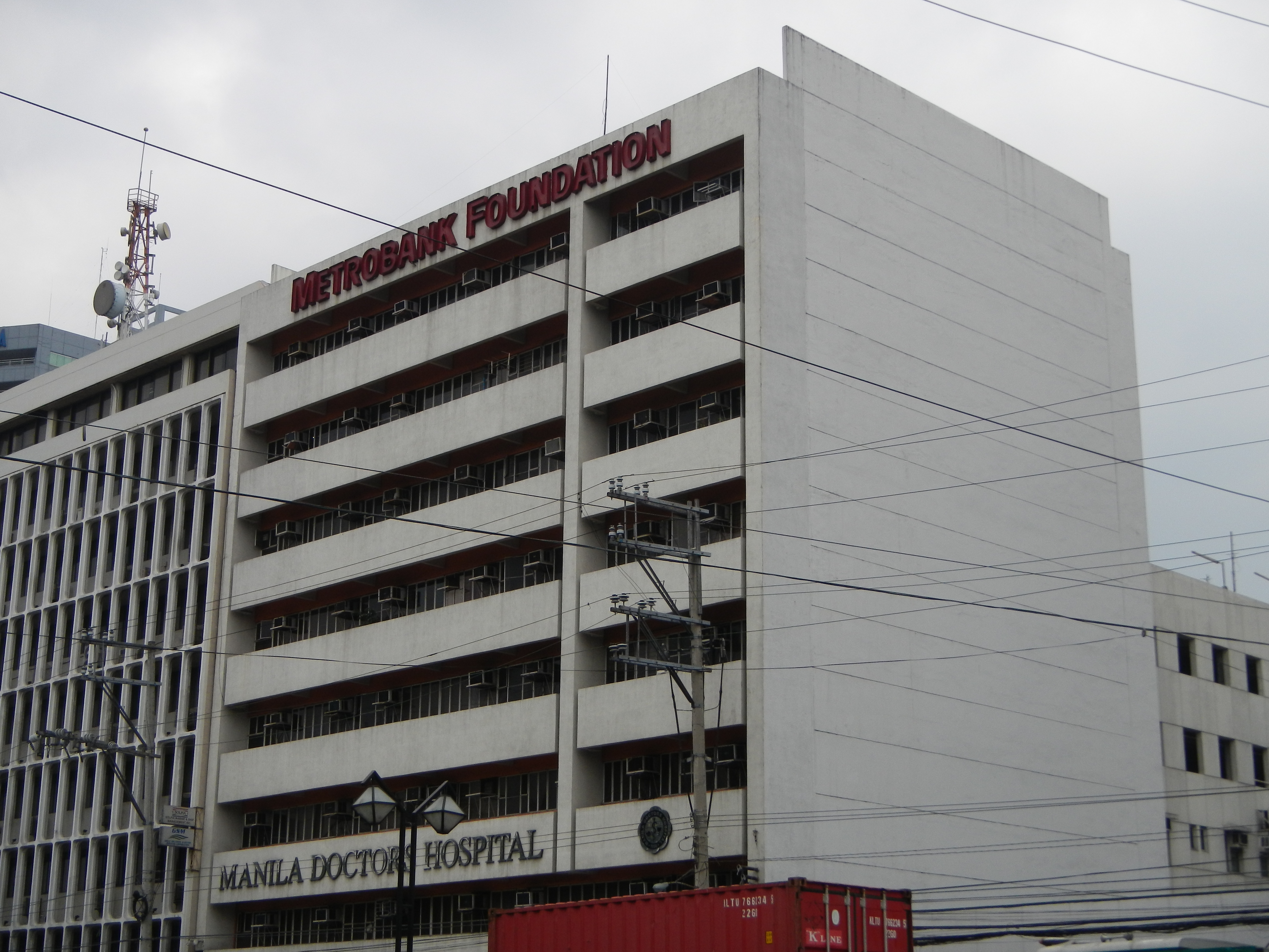 Upload Wizard photos of - the - a) Baliuag University [1], b) Manila Doctors' Hospital [2] (MDH) started operations in 1956 - 667 United Nations Avenue, Ermita, Manila, List of hospitals in Manila[3] Coordinates: 14°34'54"N 120°58'58 "E and c) Museum of Philippine Political History [4] 2nd floor and part of the - National Historical Commission of the Philippines.